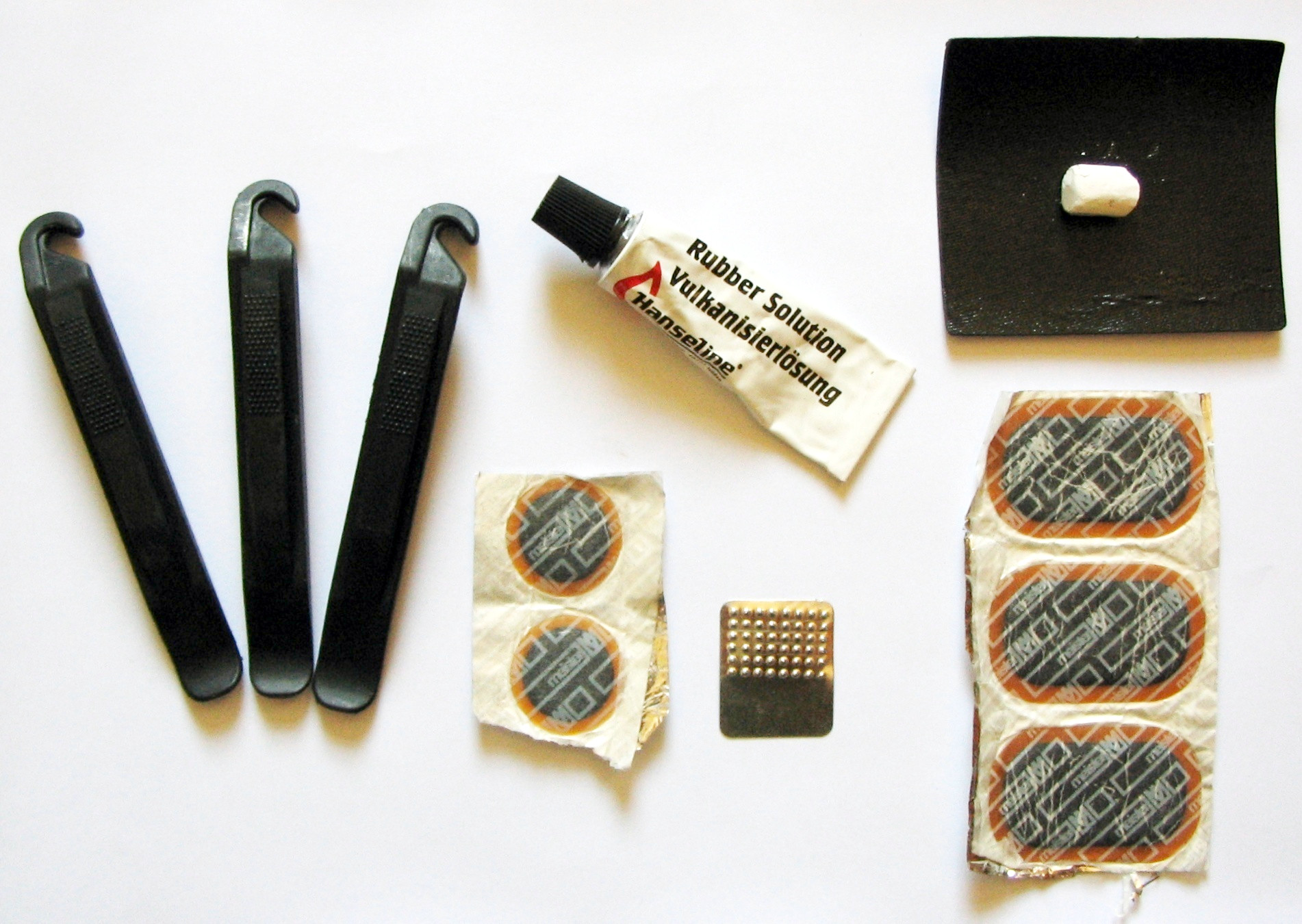 Puncture repaire-kit for bicycles